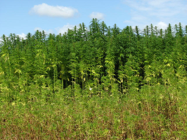 Hemp field detail. Hemp (Cannabis spec.) is one of the world’s premier renewable resource and the number one plant for producing clothing, paper, plastics, building materials, food, beverages, cosmetics, methanol fuel and an impressive array of cleaning and paint products. Industrial hemp products are made from Cannabis plants selected to produce an abundance of fiber and minimal levels of tetrahydrocannabinol (psychoactive molecule that produces the "high" associated with marijuana). For more information